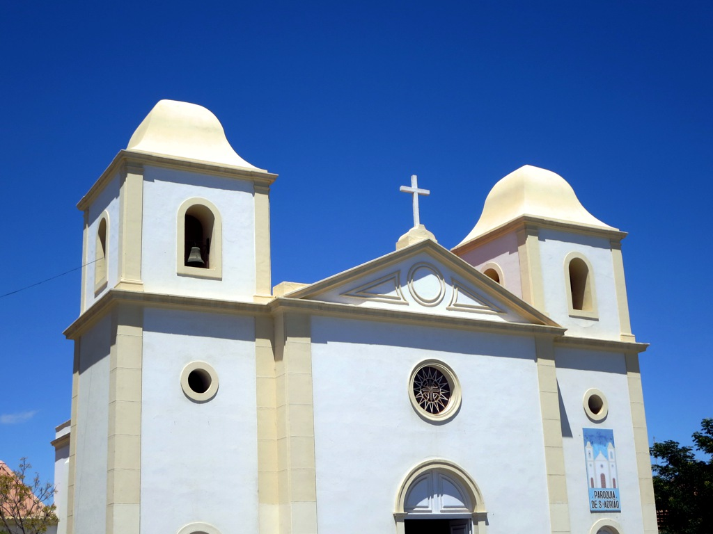 The 19th century Paroquia de Santo Adrião still dominates the skyline at Namibe, Angola.